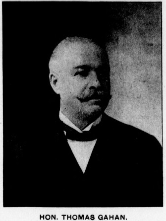 Thomas Gahan